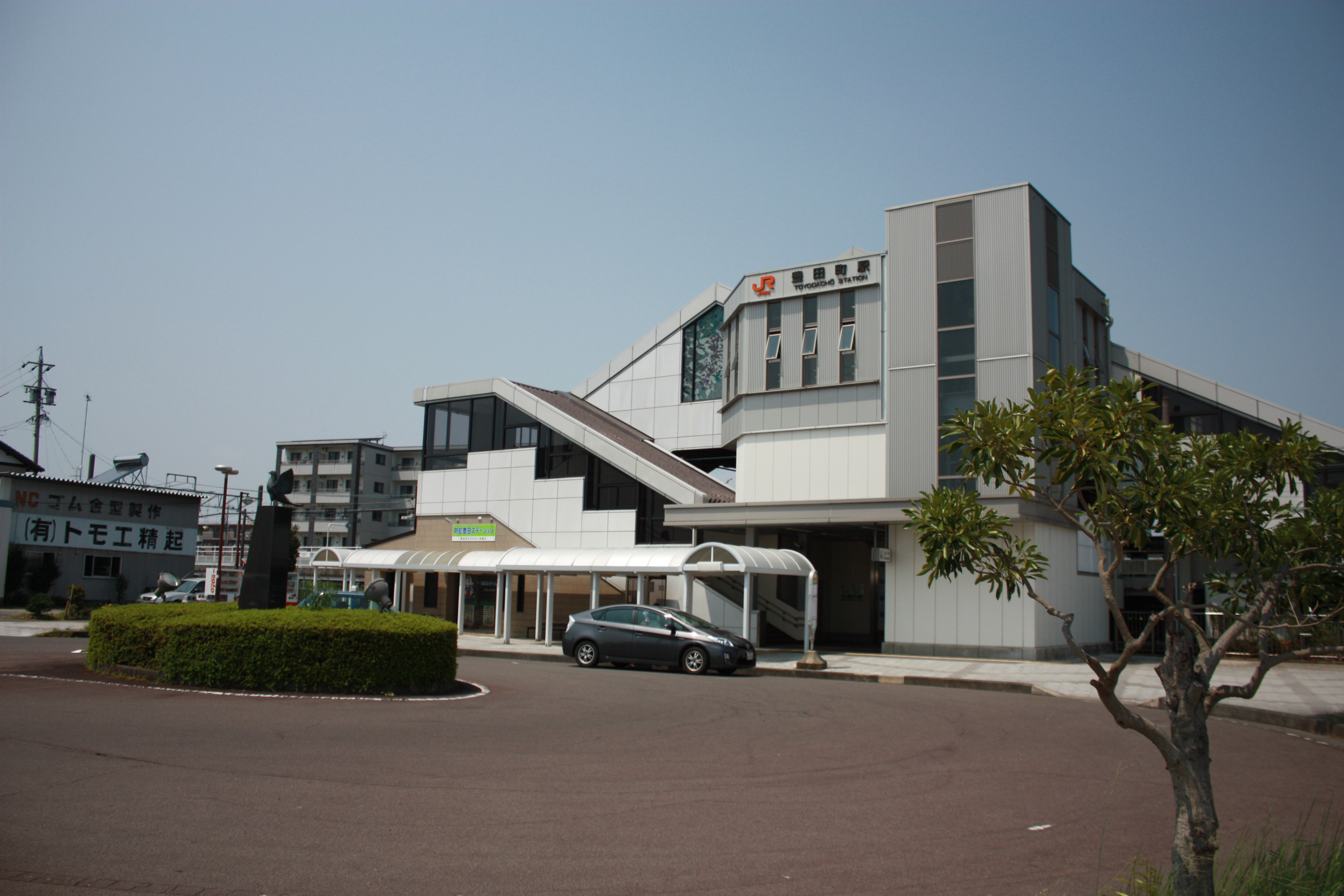 The south entrance of Toyodacho Station